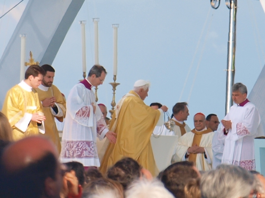 Pope Benedict XVI in Lisbon, Portugal.